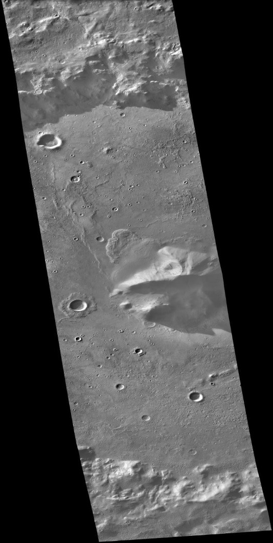 Li Fan Crater showing central mound, as seen by ctx